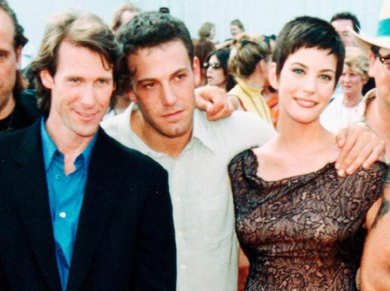 KENNEDY SPACE CENTER, FLA. -- Posing in front of the world premiere release of the film "Armageddon" are Peter Stormare, director Michael Bay, Ben Affleck, Liv Tyler, Ken Campbell, Billy Bob Thornton, Bruce Willis, Steve Buscemi, producer Jerry Bruckheimer and Jessica Steen. The screening was held in a theater specially constructed at the Apollo/Saturn V Center at the Kennedy Space Center. The movie was partly filmed at KSC, and as part of the premiere festivities, guests had a chance to see many of the sites actually used in the film as well as explore a wide range of NASA artifacts and displays. A private party that included a performance by rock band Aerosmith followed the premiere.